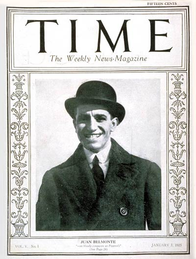 Time magazine, January 5, 1925 The cover shows the Spanish bullfighter Juan Belmonte